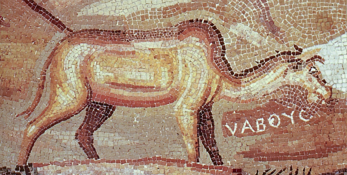 Detail of Nile mosaic from Palestrina (section 3). Museo Nazionale Palestrina, Italy.